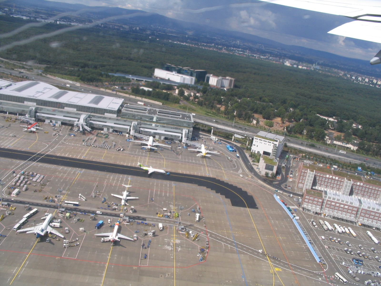 Area in front of Terminal 2 of Frankfurt International Airport, as seen from a Lufthansa Boeing 747 during takeoff